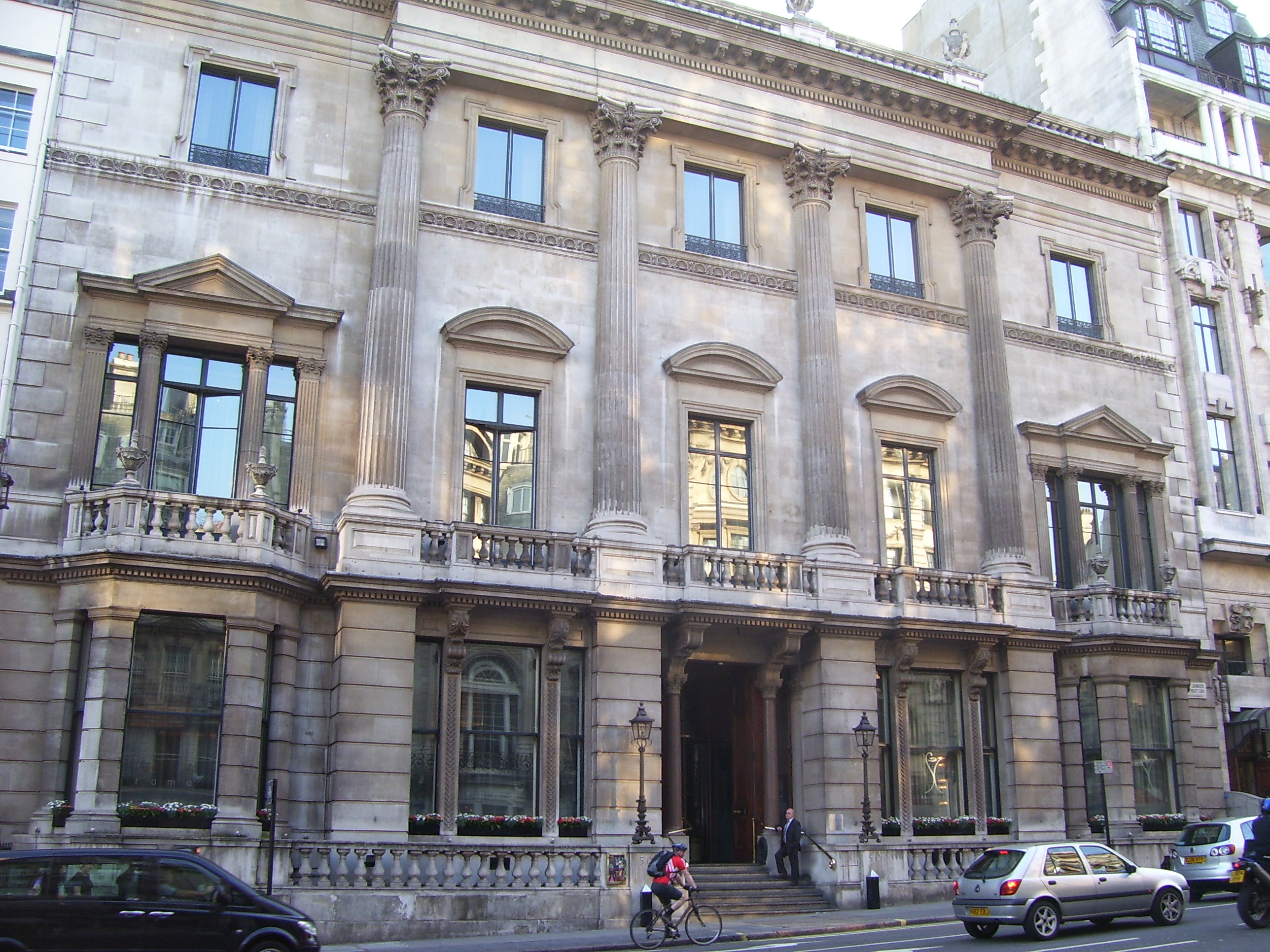 Crockford's - later the Devonshire Club. London.